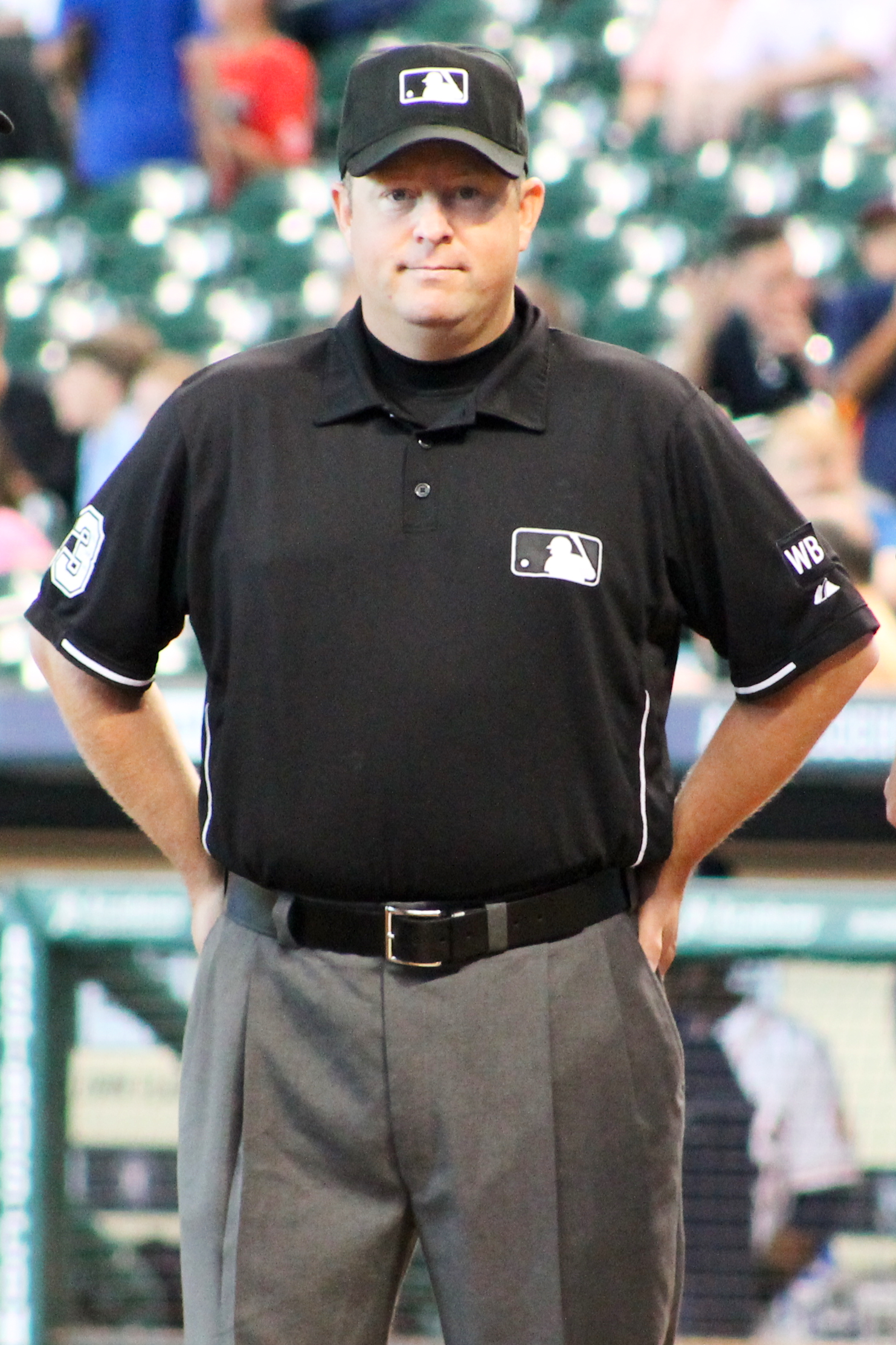 Major League Baseball umpire Todd Tichenor during a game at Minute Maid Park in July 2014.